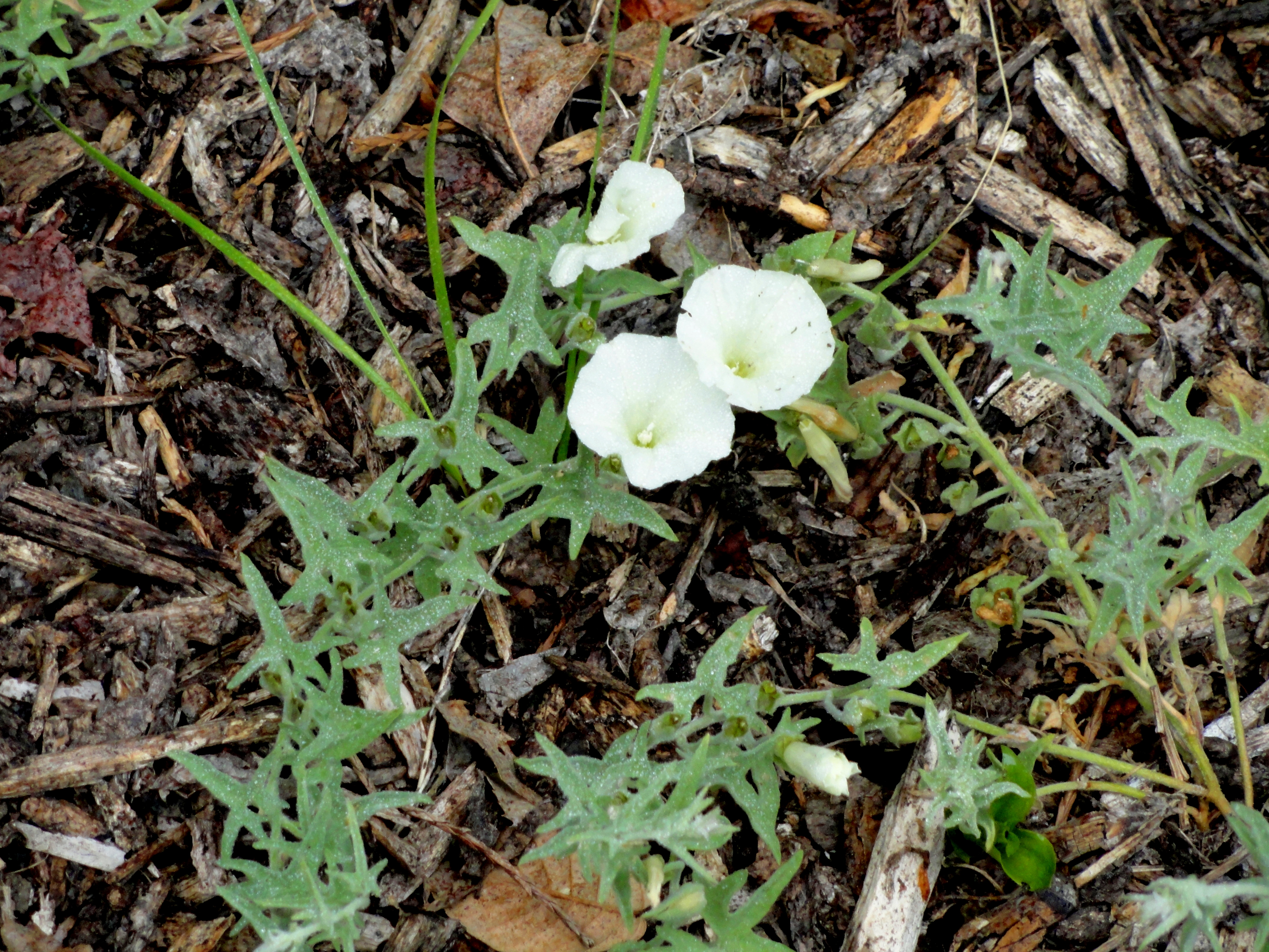 Calystegia stebbinsii specimen in the University of California Botanical Garden, Berkeley, California, USA.